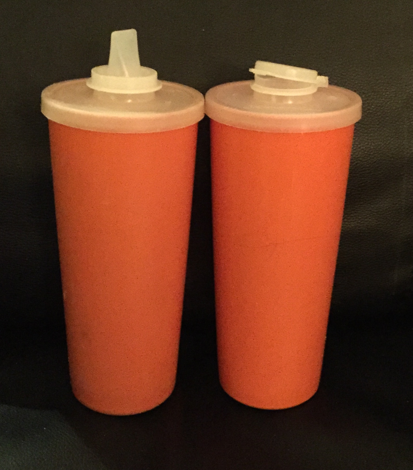 Tupperware cups